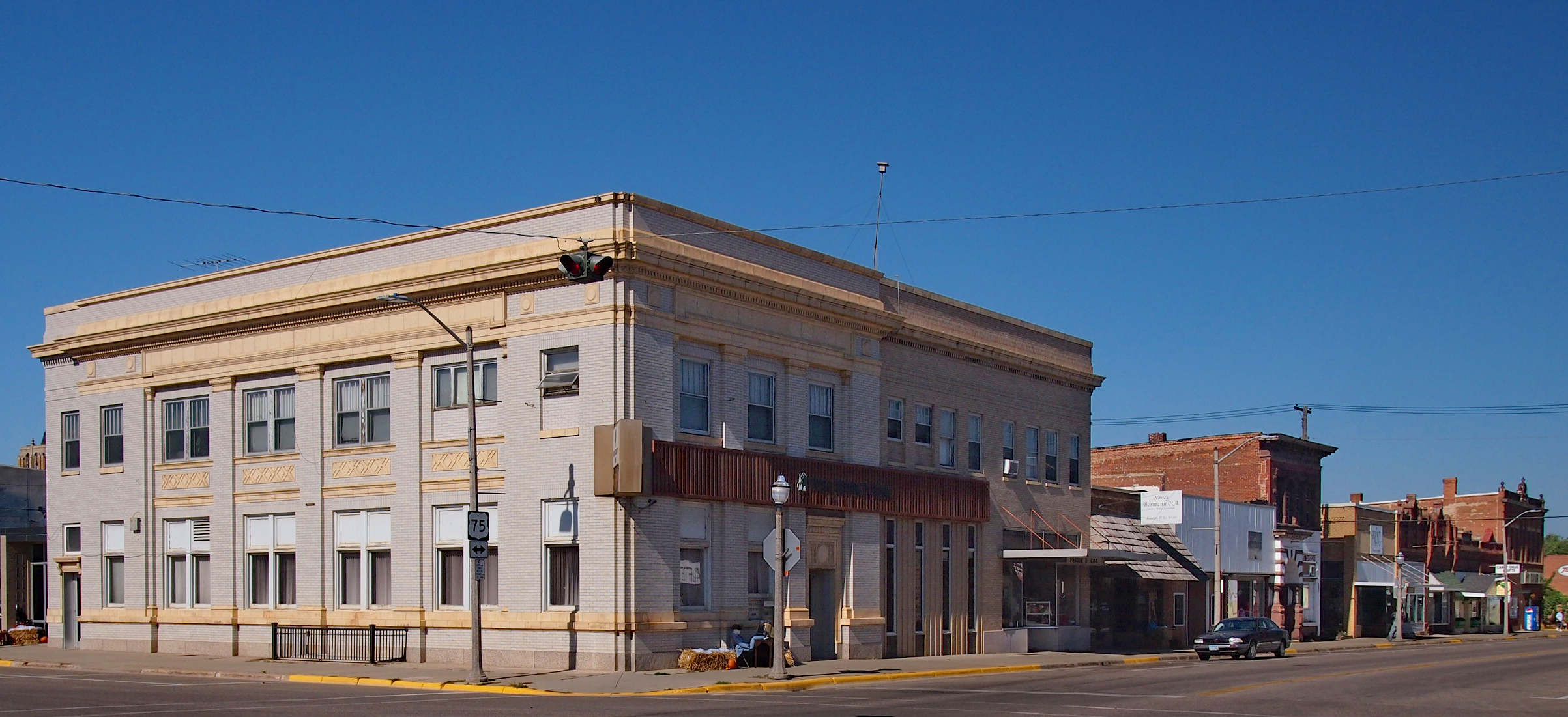 Canby Commercial Historic District, Canby, Minnesota, USA. Viewed from the south-southwest at the corner of U.S. Route 75 and 1st St E.